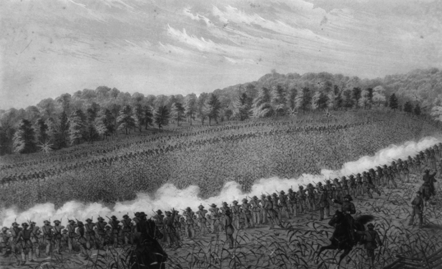 TITLE: Battle of Perryville--the extreme left-- Starkweather's brigadeAssociated name on shelflist card: Middleton, Strobridge & Co.Source: Library of Congress.